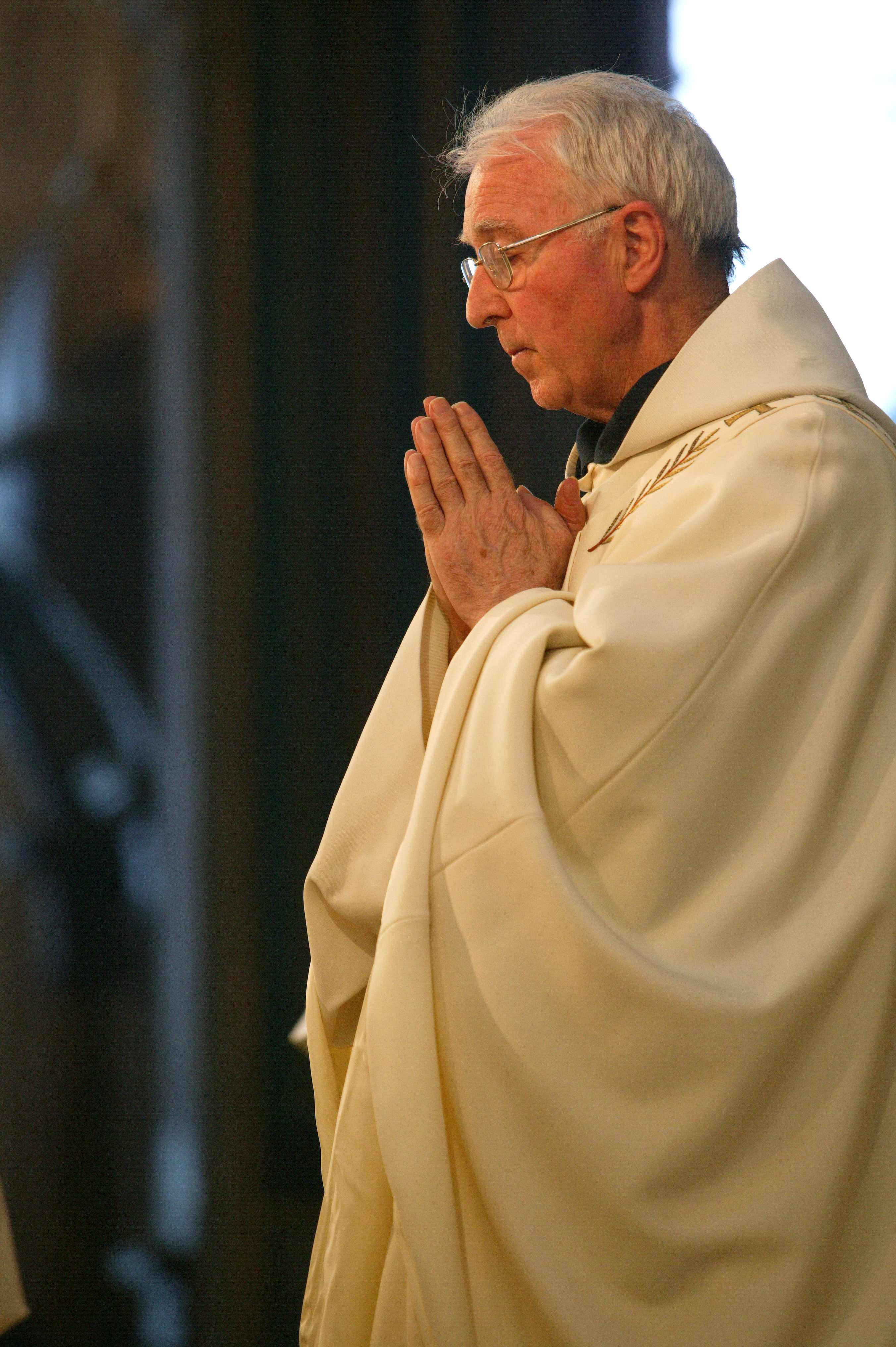 Zakladatel